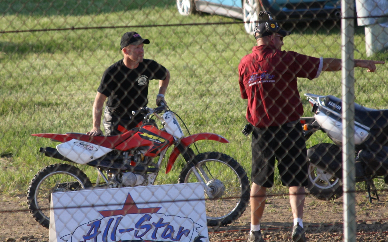 Motorcycle flattrack rider Chris Carr (motorcyclist) (left) during his farewell tour at Angell Park Speedway on U.S. Route 151.